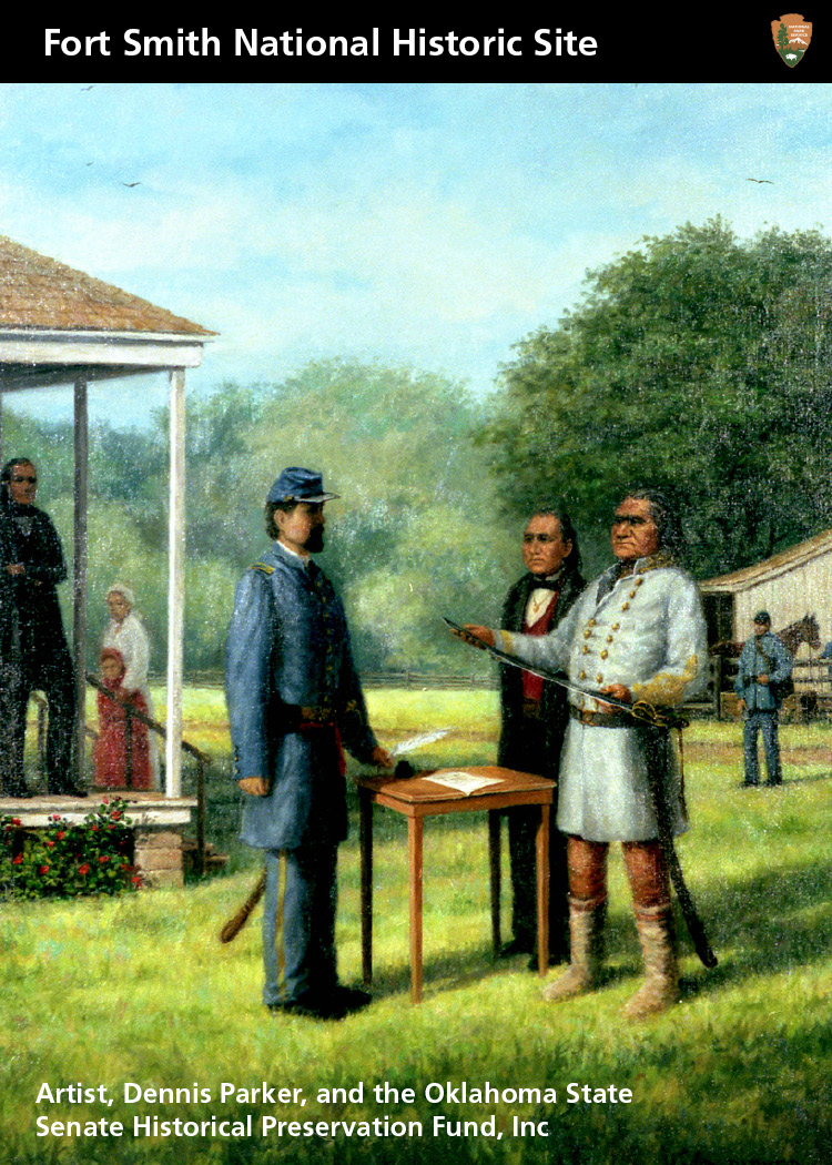 Born in Georgia in 1806, Watie became a successful Cherokee farmer prior to moving to Oklahoma with other Cherokees. During the Civil War he formed the Cherokee Mounted Rifles with fellow Confederate Cherokees. As brigadier general, he holds the distinction of being the last Confederate general to surrender in June 1865.